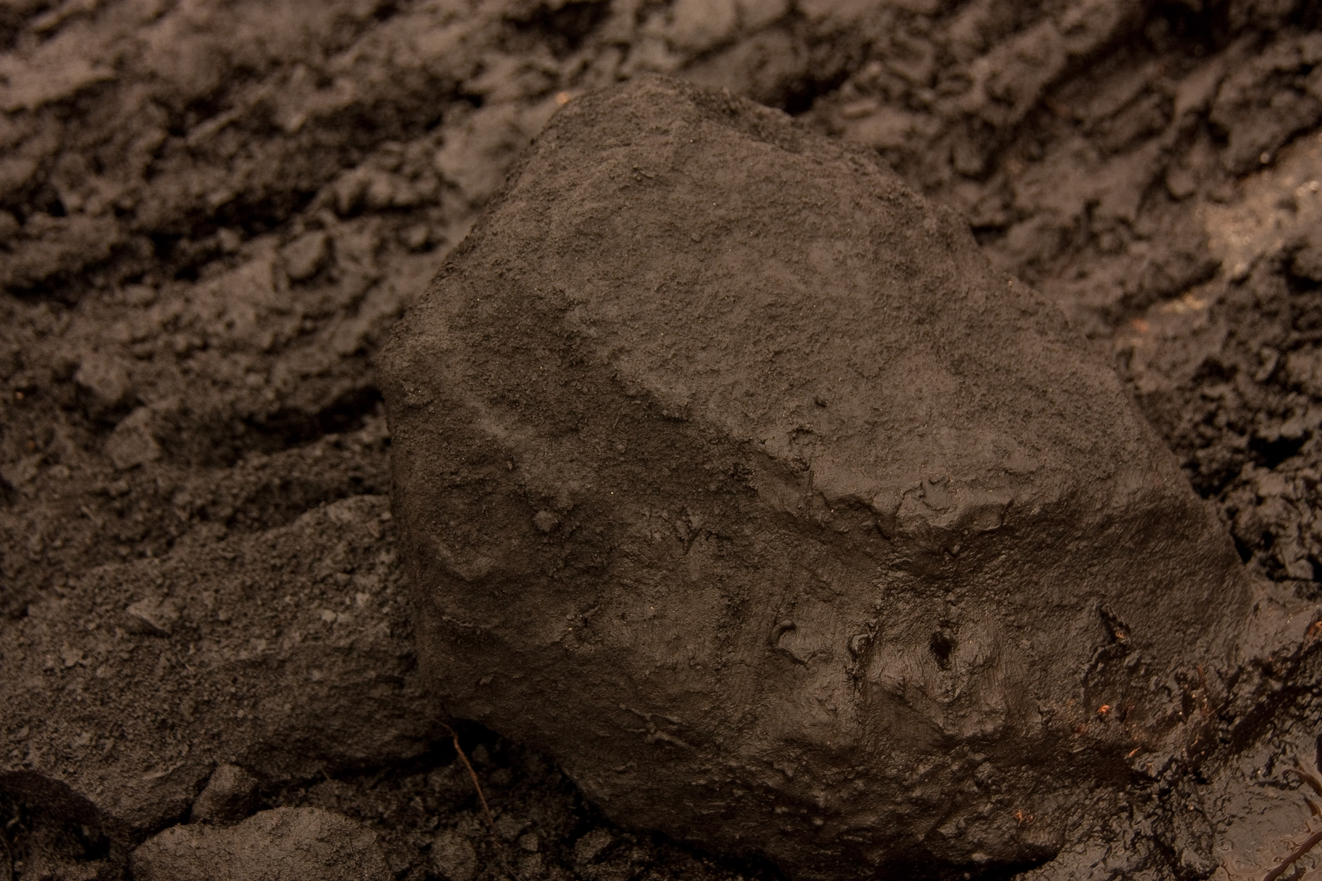 A piece of lignite ("brown coal") at the power plant Klingenberg in Berlin. The lignite comes from the open-pit mine Welzow-Süd in Lusatia.